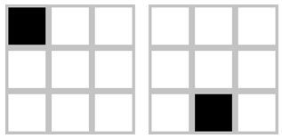 translation - basic operation in Binary morfology